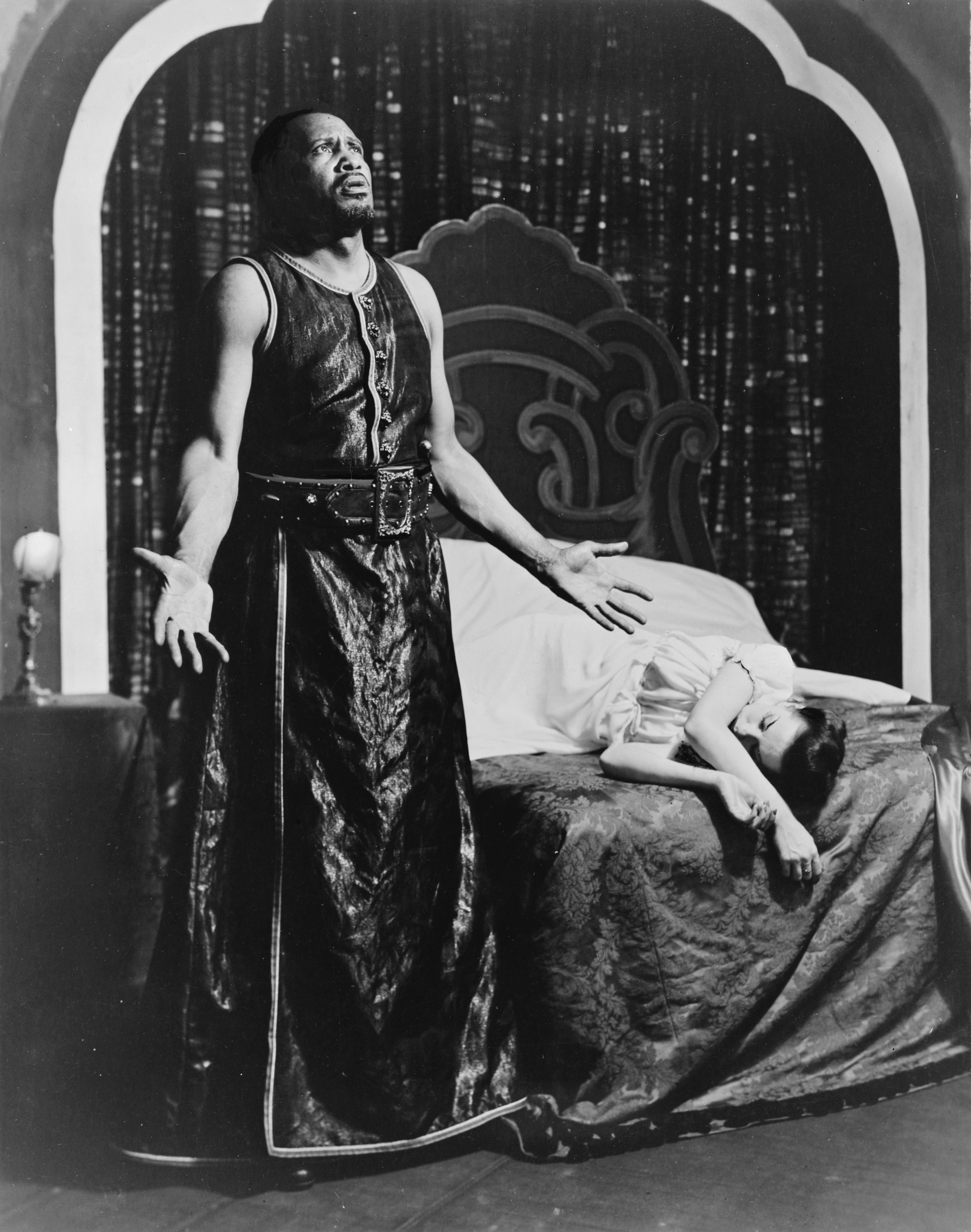 Title: [Scene from "Othello" with Paul Robeson and Uta Hagen as Desdemona, Theatre Guild production, Broadway, 1943-44] Date Created/Published: [1943 or 1944] Medium: 1 negative ; 5 x 7 inches or smaller. Reproduction Number: LC-USW331-054945-ZC (b&w film neg.) Rights Advisory: No known restictions on images made by the U.S. government; images copied from other sources may be restricted. For information, see U.S. Farm Security Administration/Office of War Information Black & White Photographs( Call Number: LC-USW331- 054945-ZC [P&P] Repository: Library of Congress Prints and Photographs Division Washington, D.C. 20540 Notes: Title and date from LC-USW33-054945-ZC. Transfer; United States. Office of War Information. Overseas Picture Division. Washington Division; 1944. More information about the FSA/OWI Collection is available at fsa.8e07914